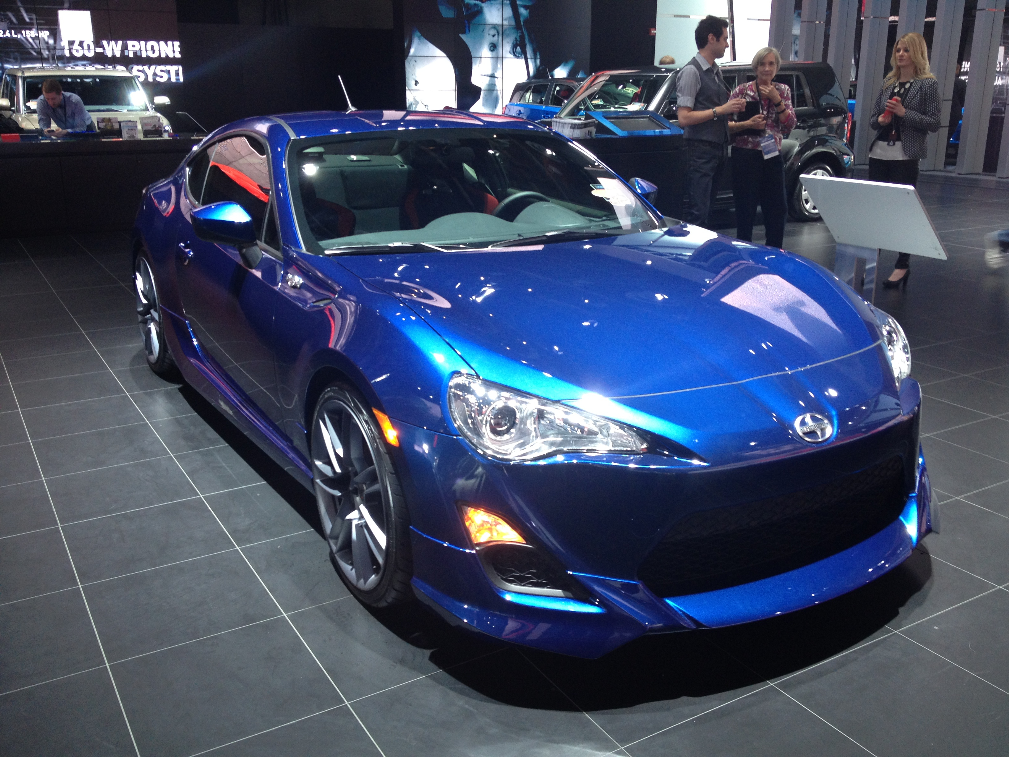 2013 North American International Auto Show Detroit, Michigan